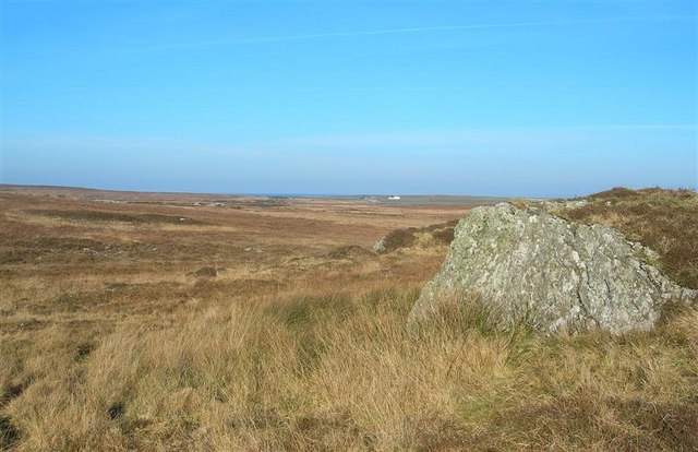 Moorland View The view from the lower slopes of Carn Mor, with Ardnave Farm visible in the far distance.